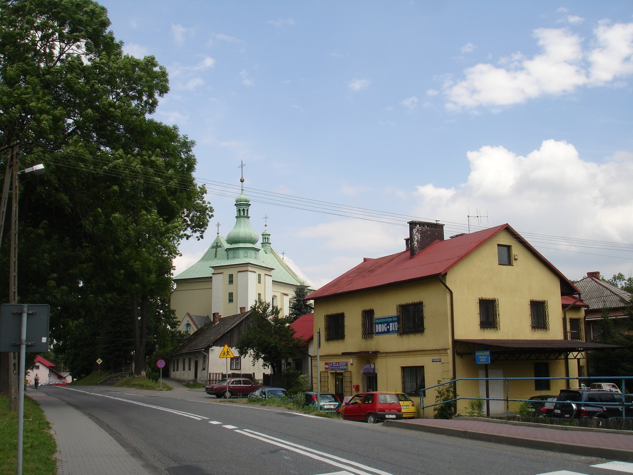 village Spytkowice near Zator